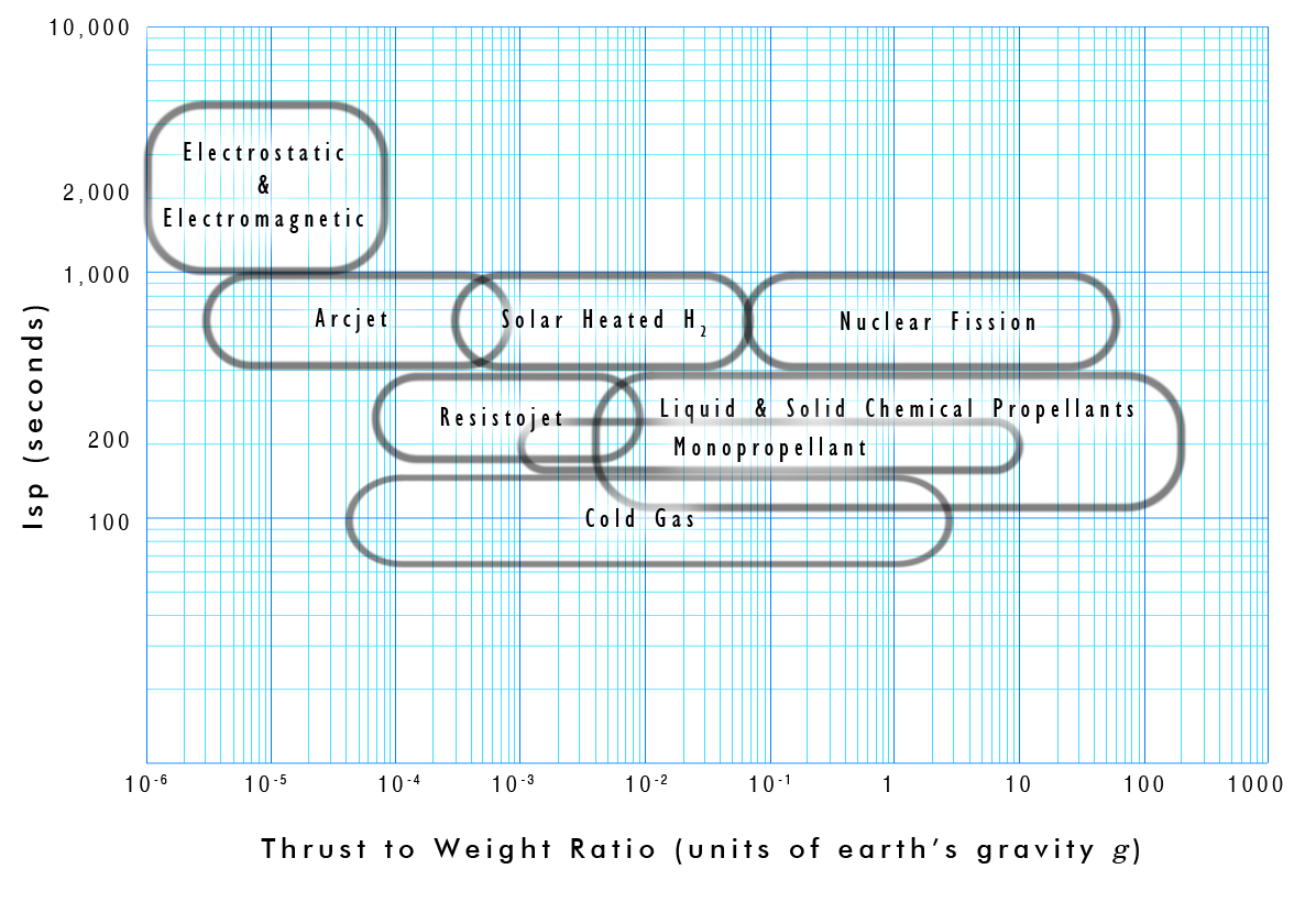 Chart of thrust to weight ratios for rocket vehicles, with respect to the specific impulse (Isp) of the propellant type.